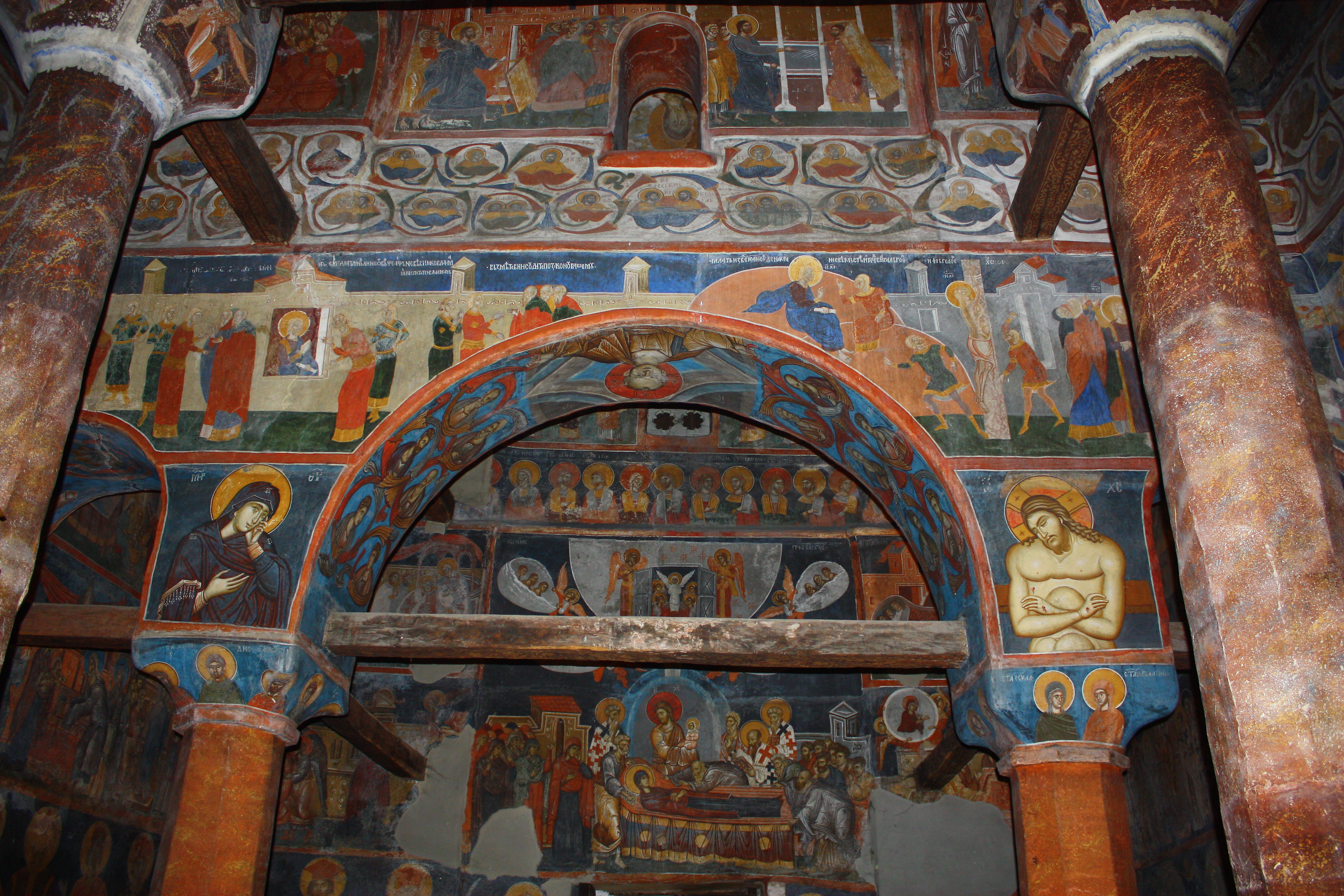 St. Demetrius Church in Marko's Monastery, Markova Sušica, Macedonia